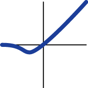 I-V relationship of NMDA Glutamate Receptor